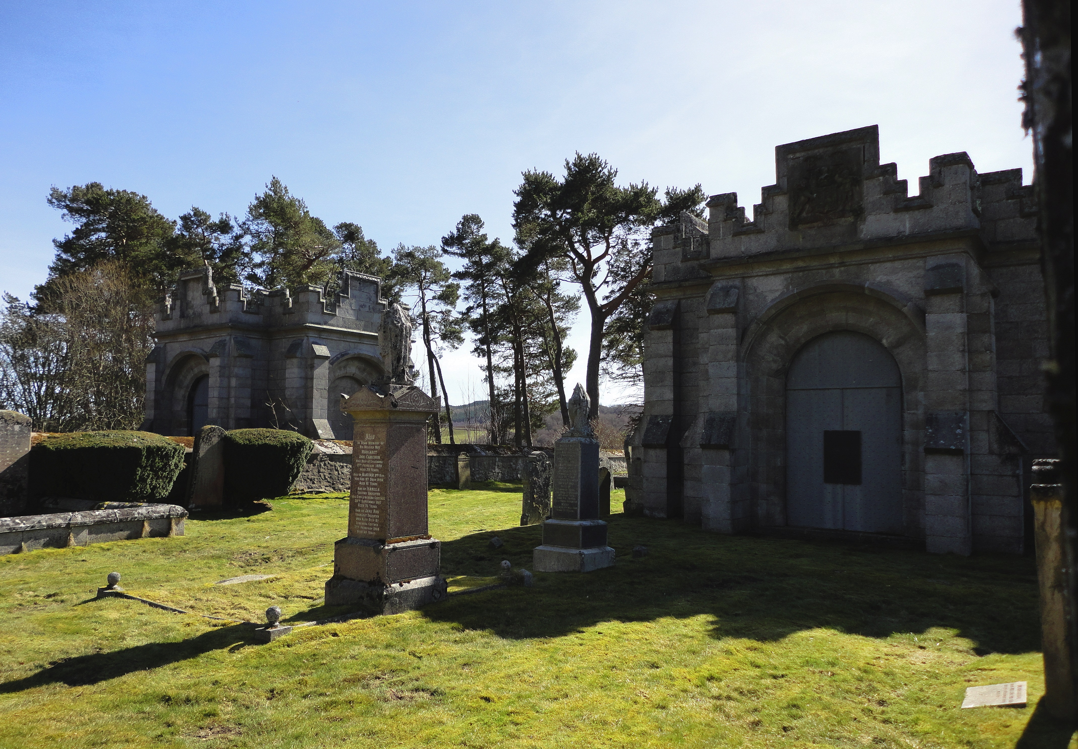 Duthil Old Parish Church and Churchyard (near Carrbridge in Inverness-shire, Scotland): View from the entrance gate towards the Seafield mausoleum (right)